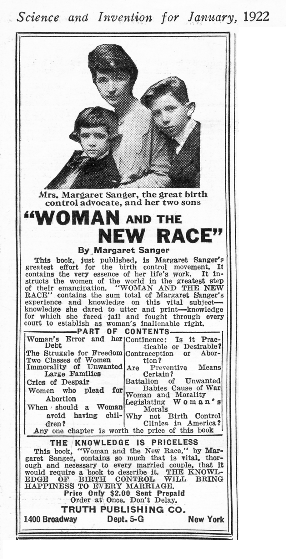 Advertisement for Margaret Sanger's book, "Woman and the New Race" Science & Invention, January 1922. Volume 9 Number 9, page 883. Image:Science and Invention Jan 1922 pg794.png Table of Contents Image:Science and Invention Jan 1922 pg883.png The page numbers were on an annual basis, not per issue. This issue had pages 793 to 888. The magazine size is 8 by 11.5 inches (20 by 29 cm). Published by Experimenter Publishing Company Inc. 233 Fulton Street, New York, NY. Hugo Gernsback, President; Sidney Gernsback, Treasure; R. W. DeMott, Secretary.